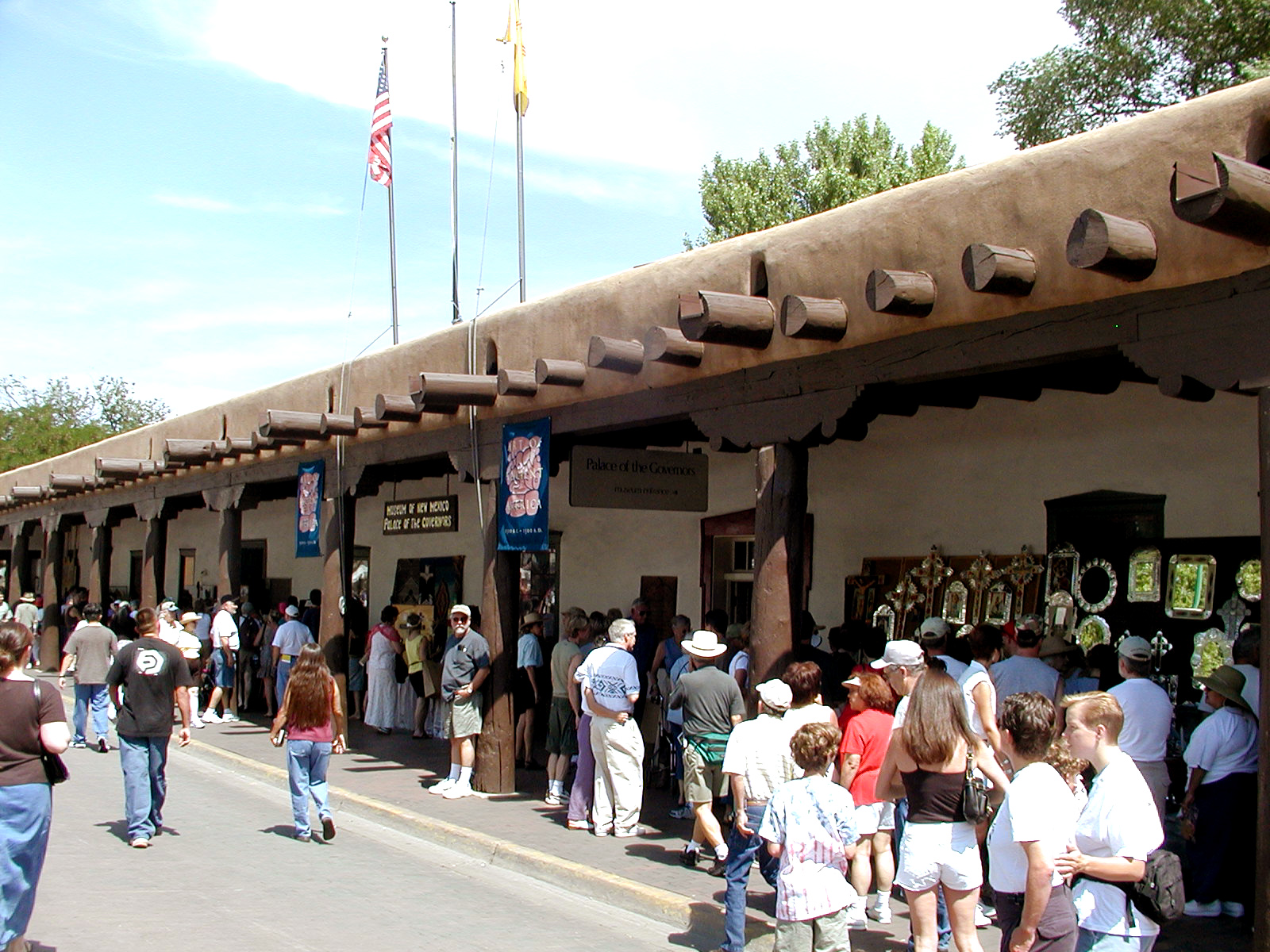 Market in front of the Palace of the Governors